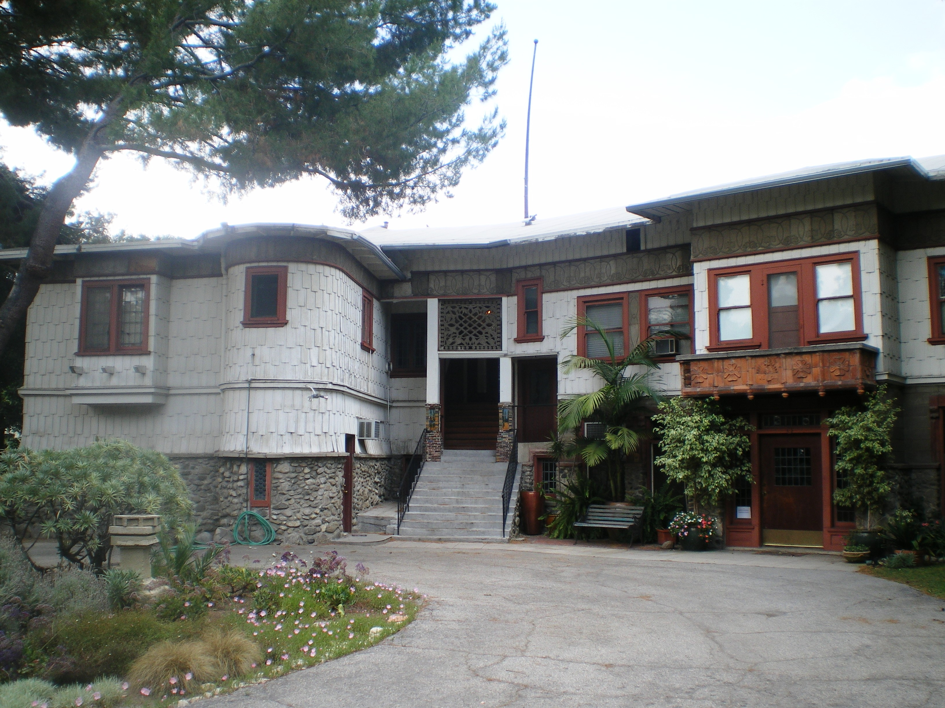 Judson Studios — Art studio for Arts and Crafts American craftsman style stained-glass elements. At 200 S. Avenue 66, Highland Park, Northeast Los Angeles, California. Established by William Lees Judson — and his three sons Walter H. Judson, J. Lionel Judson and Paul Judson.